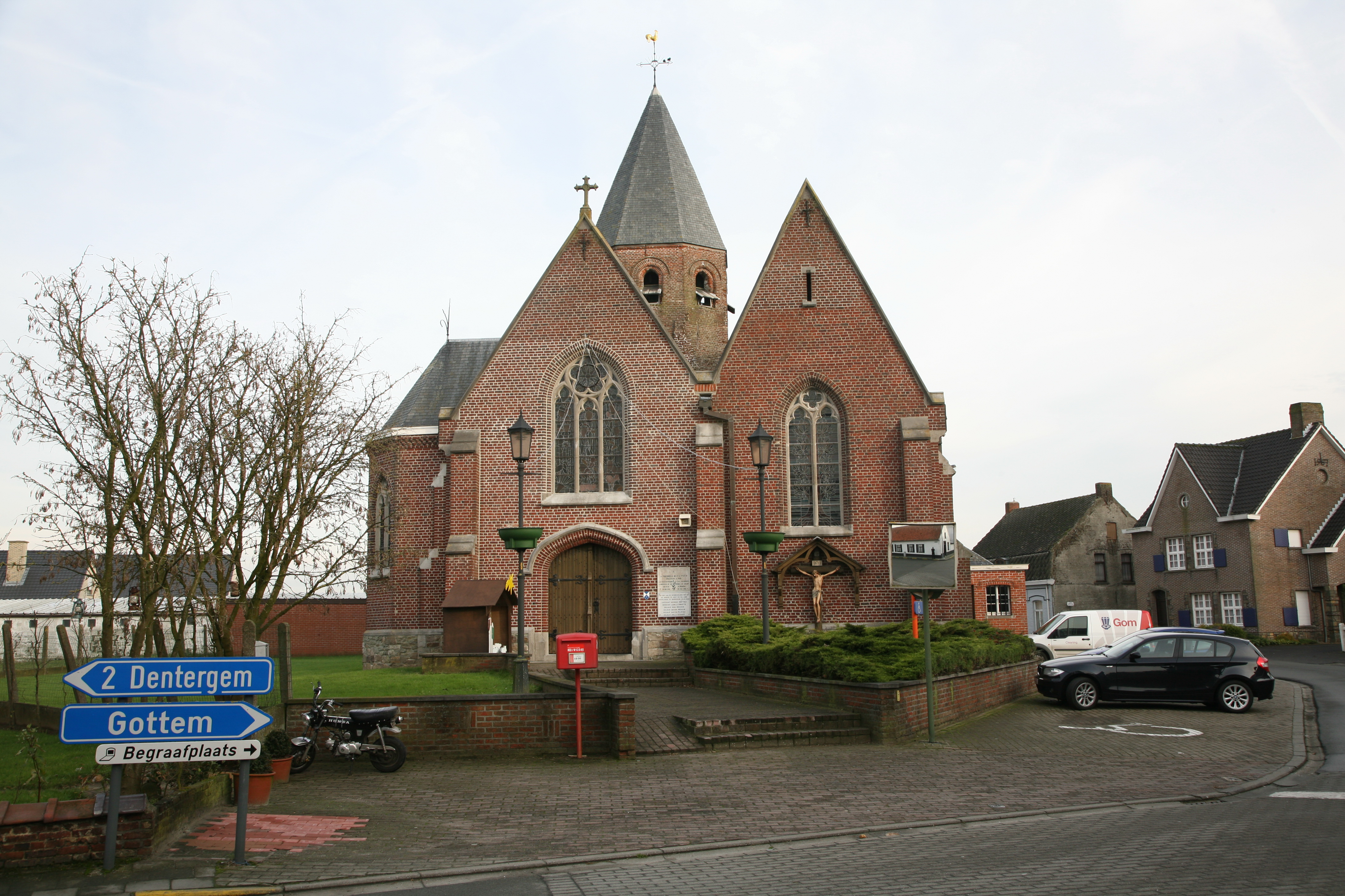 Church of Markegem, BE